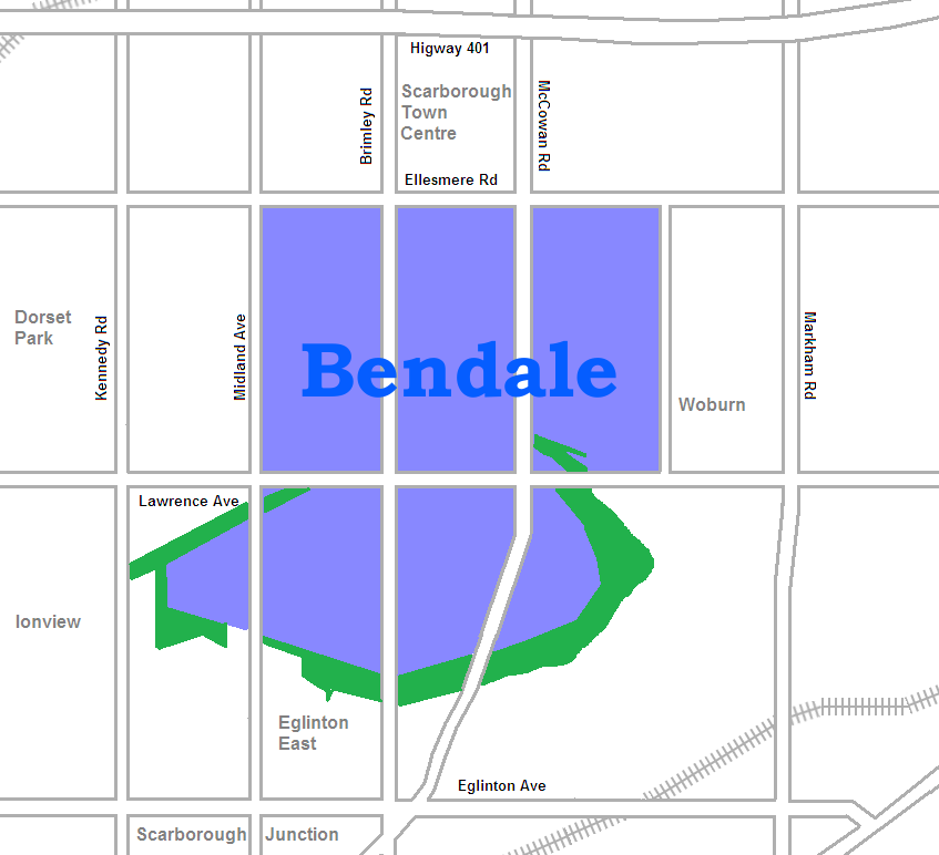 map of Bendale